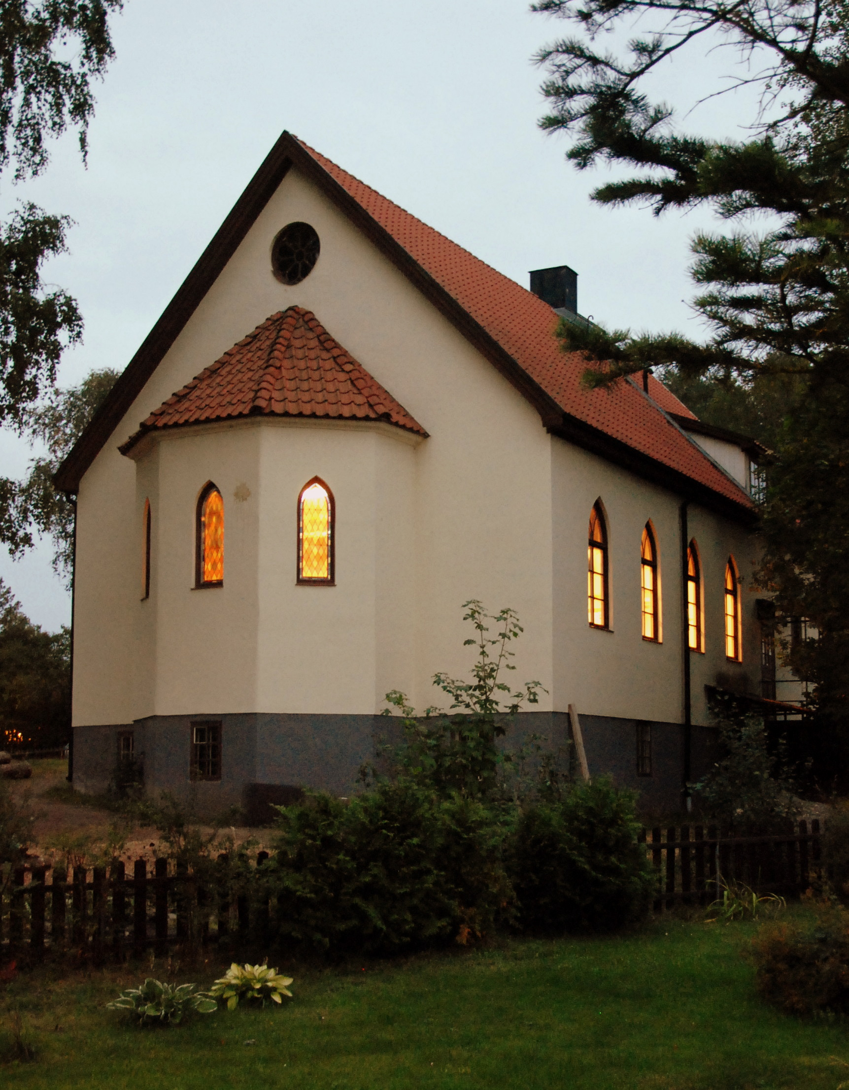 Building of Spånga Scout association